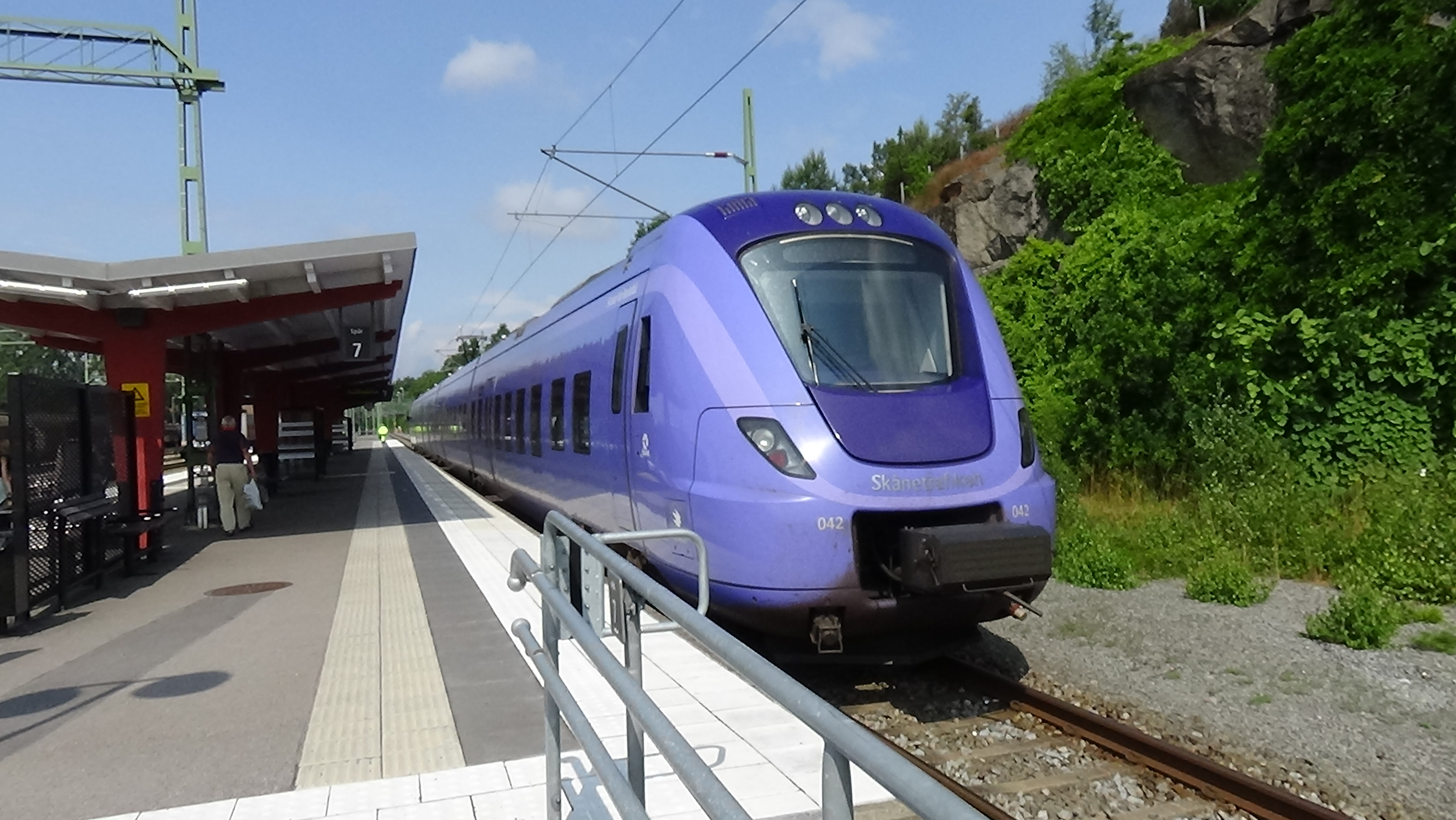 A Pågatågtrain of the type X61 at Karlshamn Railwaystation.